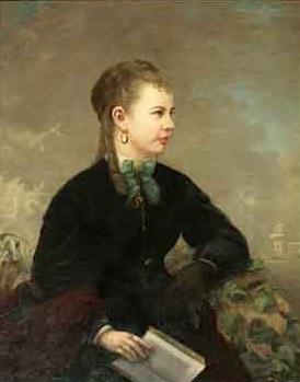 Elizabeth Plankinton portrait oil painting